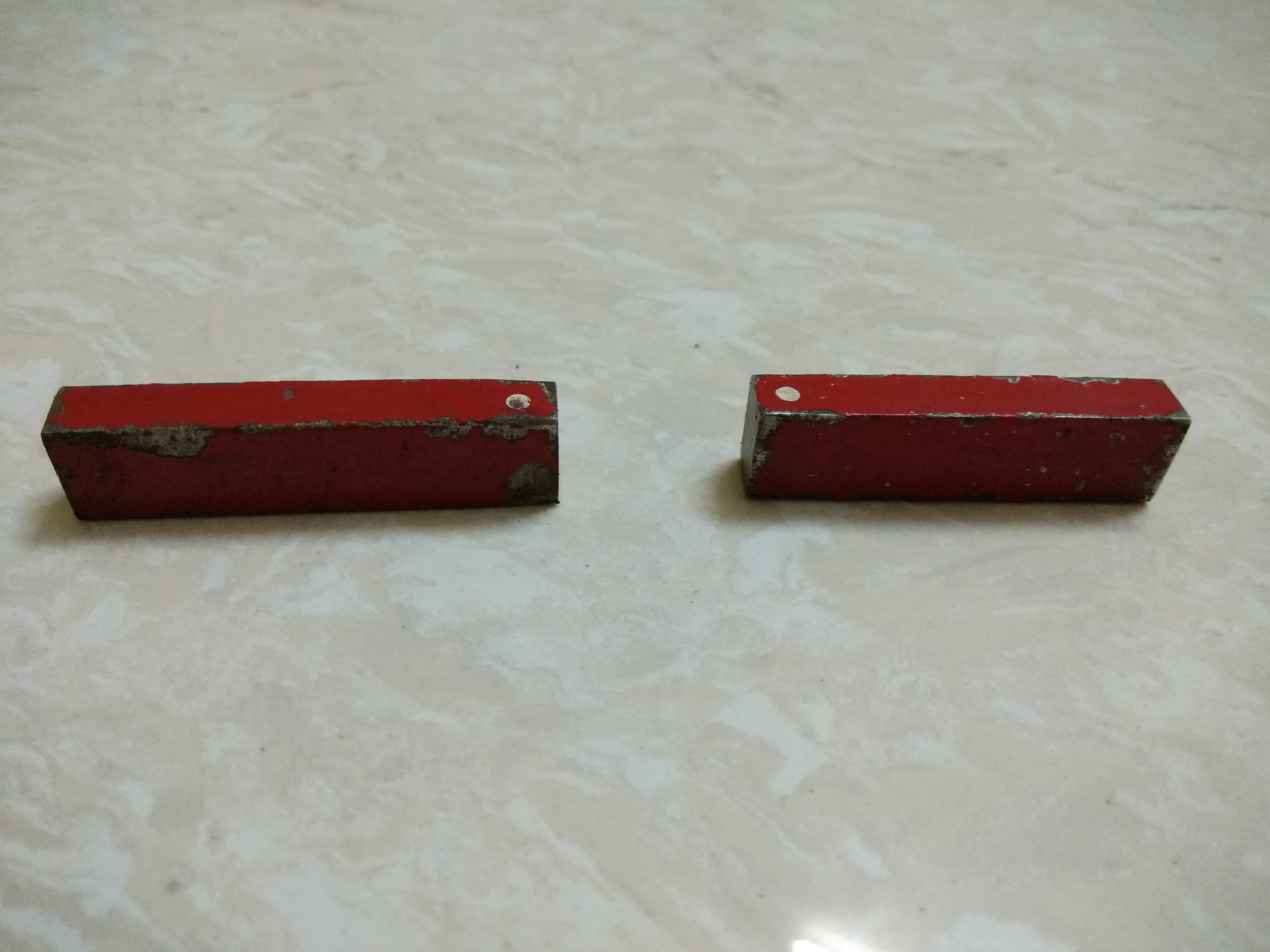 இரு காந்தங்களுக்கு இடையேயான விசை